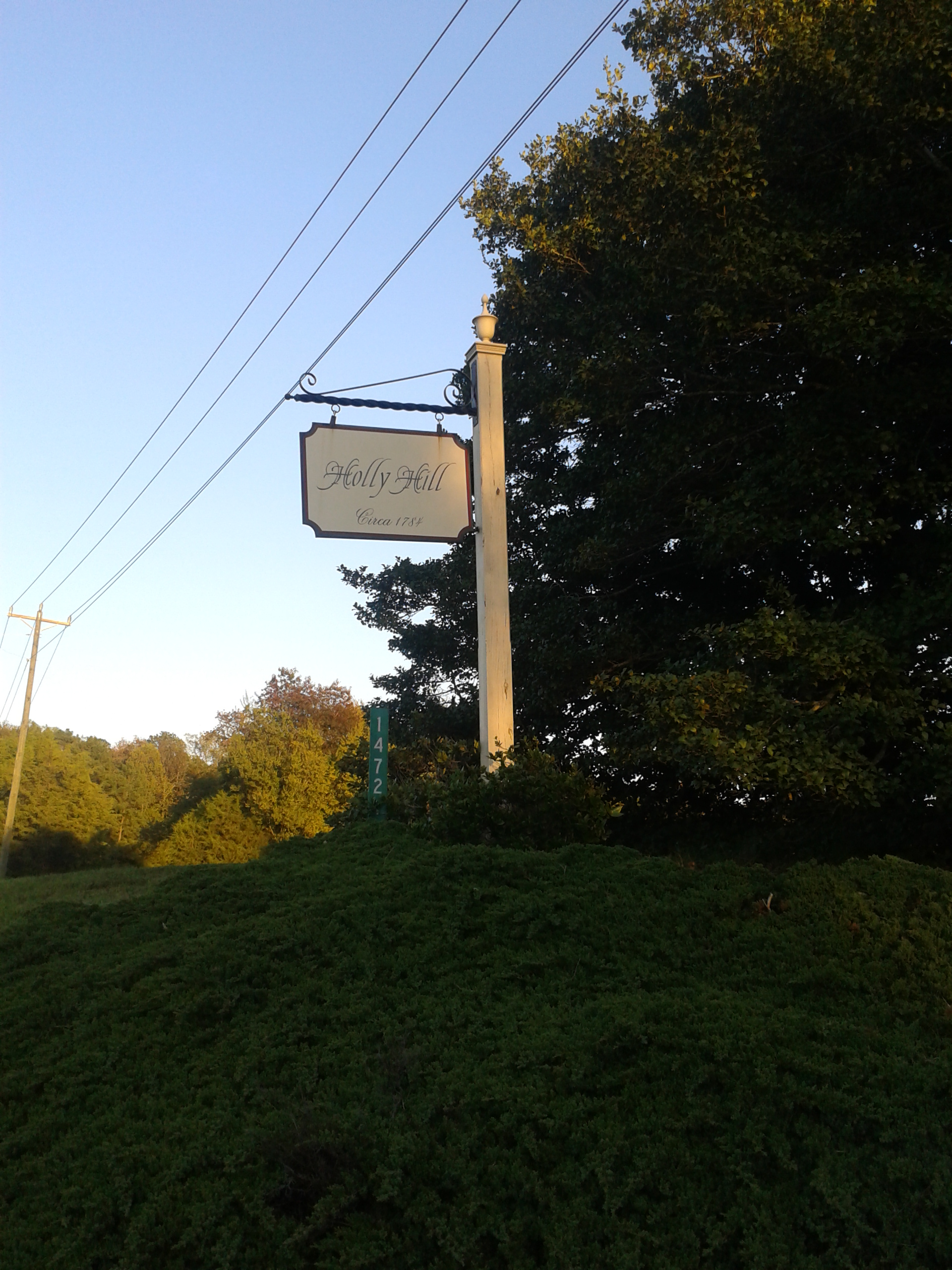 Holly Hill, King and Queen County, Virginiia